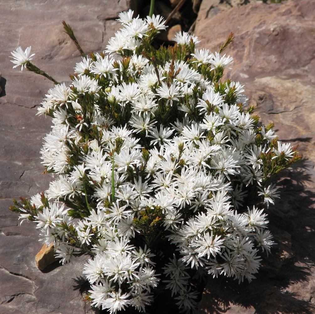 Pseudanthus pimeleoides (cultivated, labelled) Australian Garden, Royal Botanic Gardens Cranbourne, Victoria, Australia